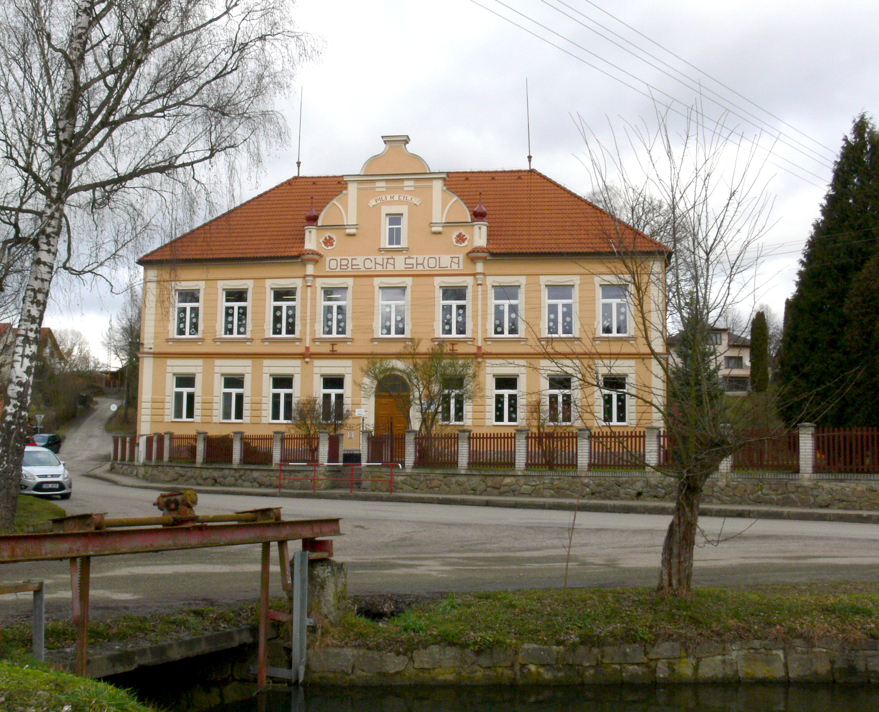 building ZS Archa